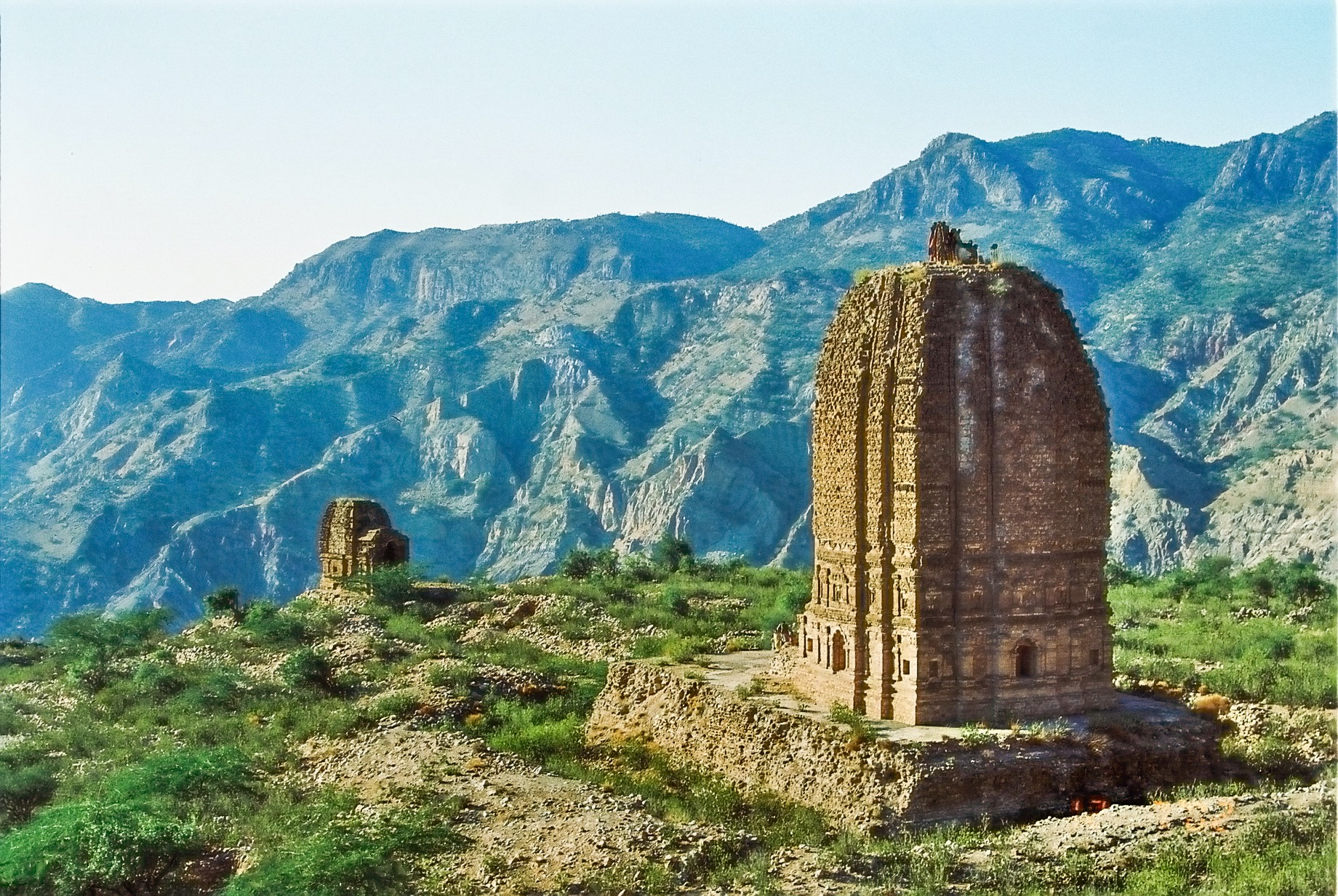 Amb Temples in Soon Sakasar Valley in Salt Range, District Khushab, Punjab, Pakistan This is a photo of a monument in Pakistan identified as the PB-141